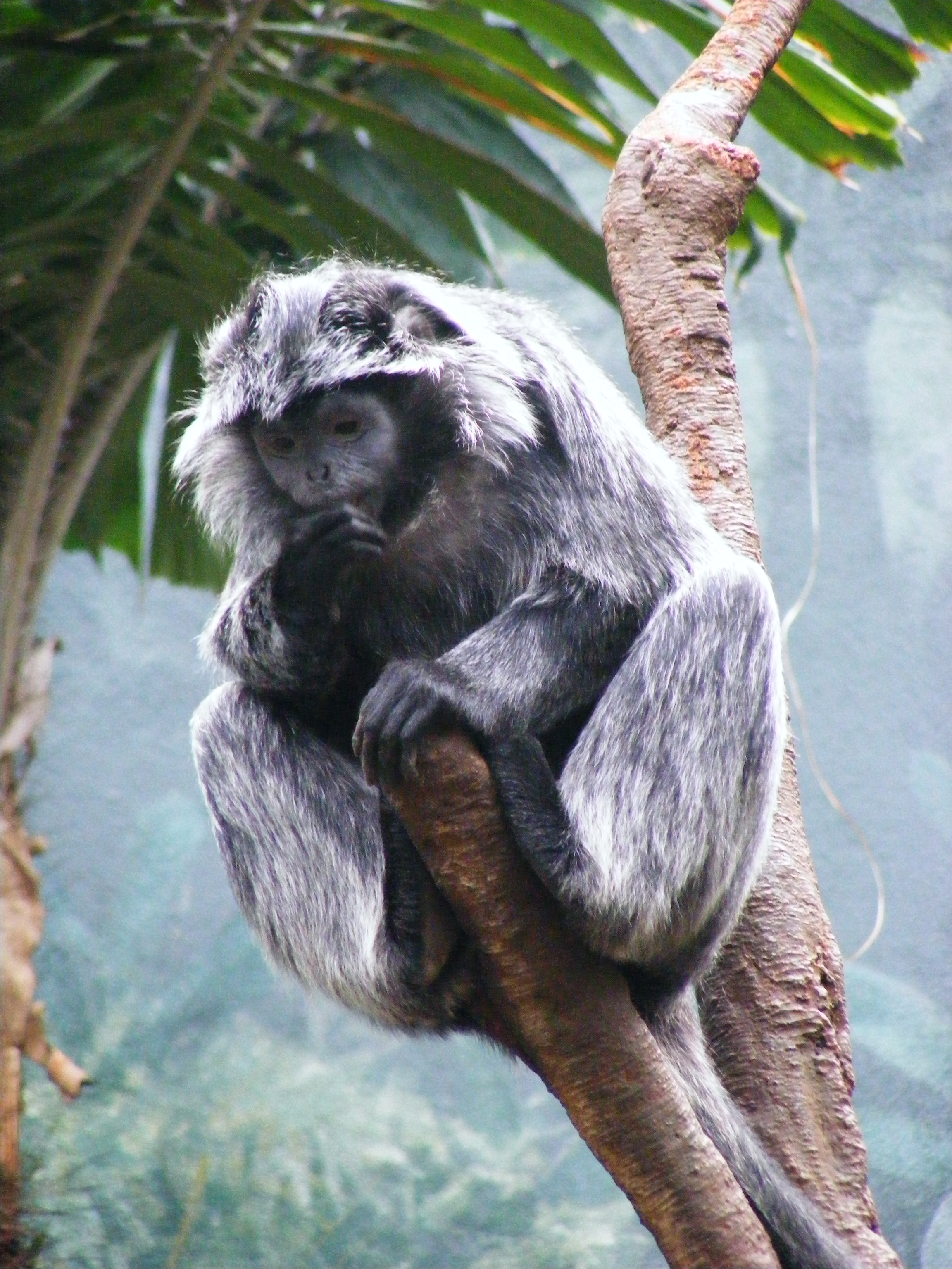 The Bronx Zoo. Trachypithecus auratus